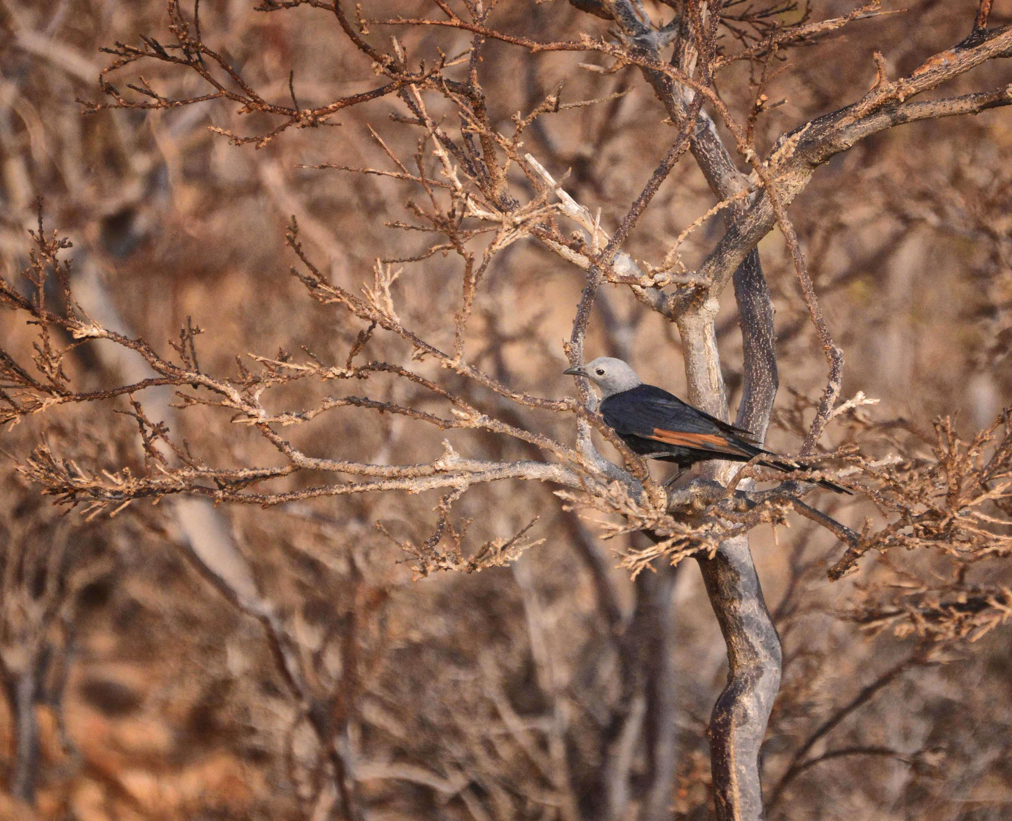 Socotra Island, Yemen